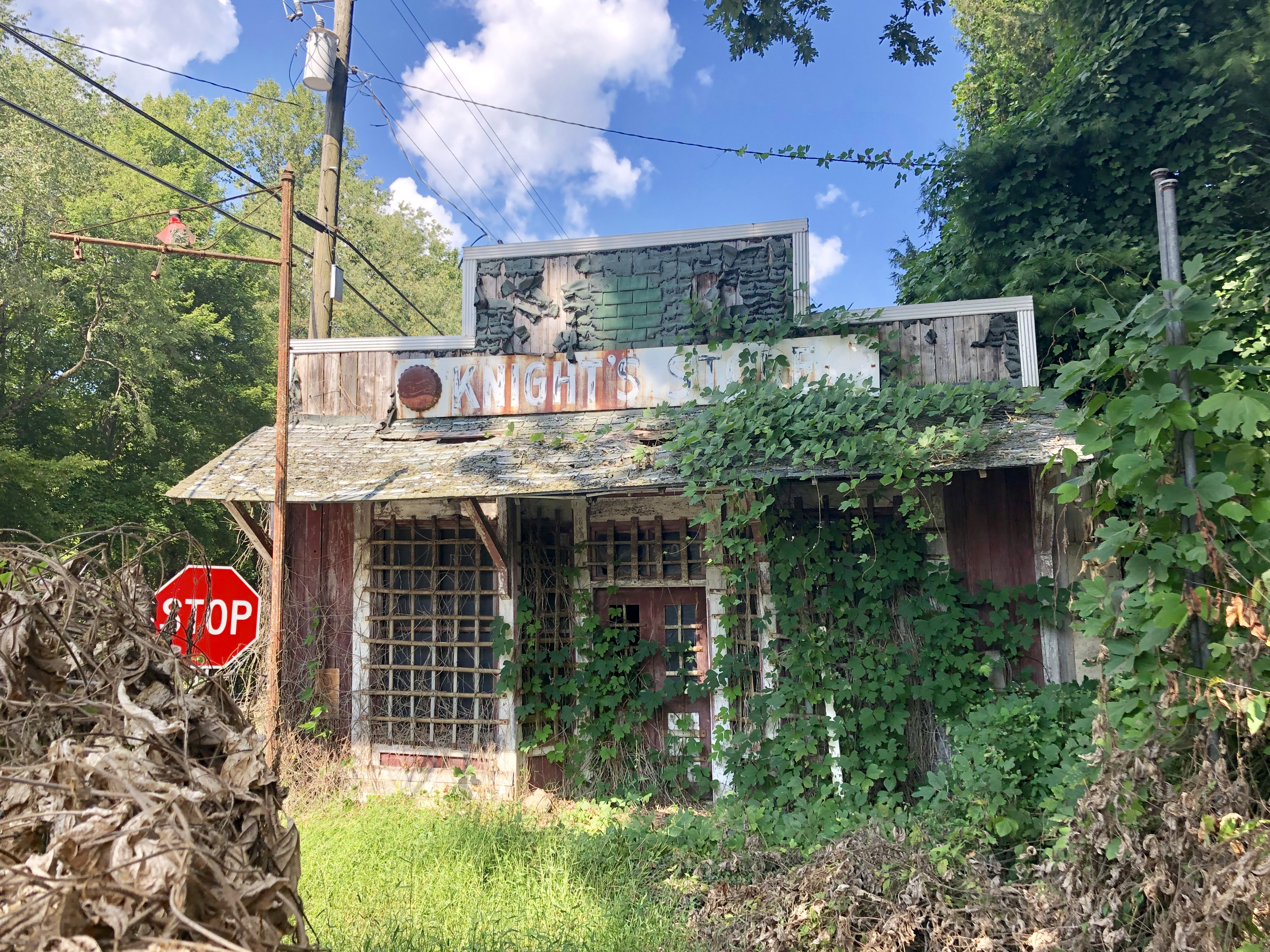 This is the former Knight's Store at Balsam, North Carolina. Located across Balsam Depot Road from the site of the old Balsam Depot, the building was constructed around the turn of the 20th Century, and remained in use until 1979. Today, the building remains abandoned and in an advanced state of decay, and is the last remaining commercial structure near the former Balsam Depot.